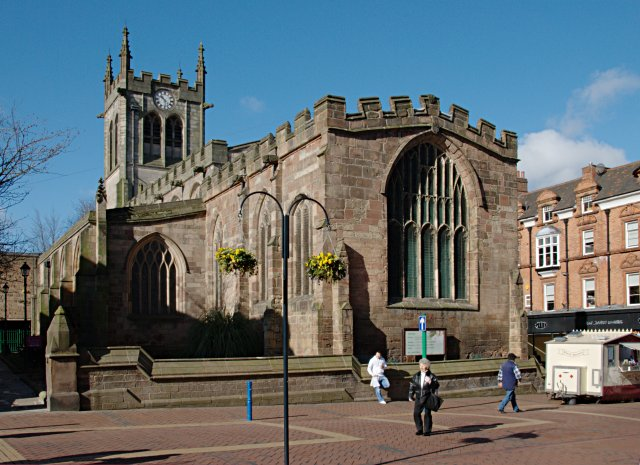 St Peter's Church, Derby. St Peter's is one of the few city centre churches still in full use for worship. The church building dates from the 11th century and recently celebrated its 950th anniversary. The tower has a peal of eight bells, which are rung before the Sunday morning services.